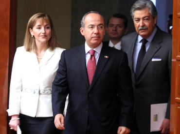 IMAGE DISTRIBUTED FOR MEXICO TOURISM